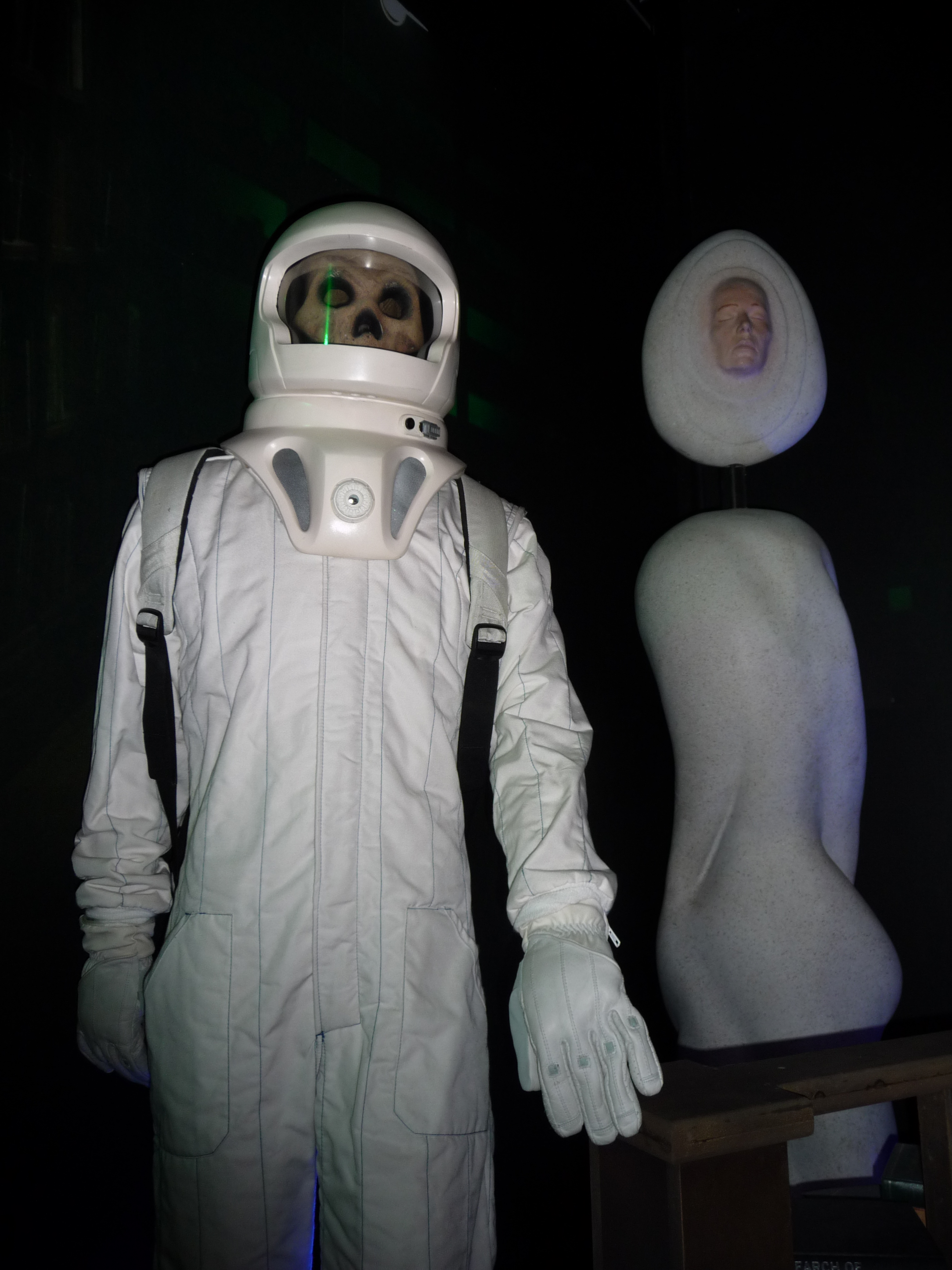 The vasua navarda inside a space suit and the Library's help point with faces appearing on it, at the Dr Who exhibition after they appeared in 2 2008 episodes